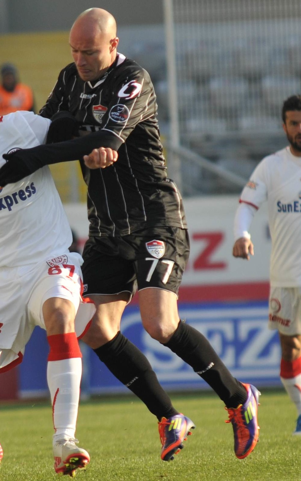 Photo: Murat Özgen & Koray Geçgel